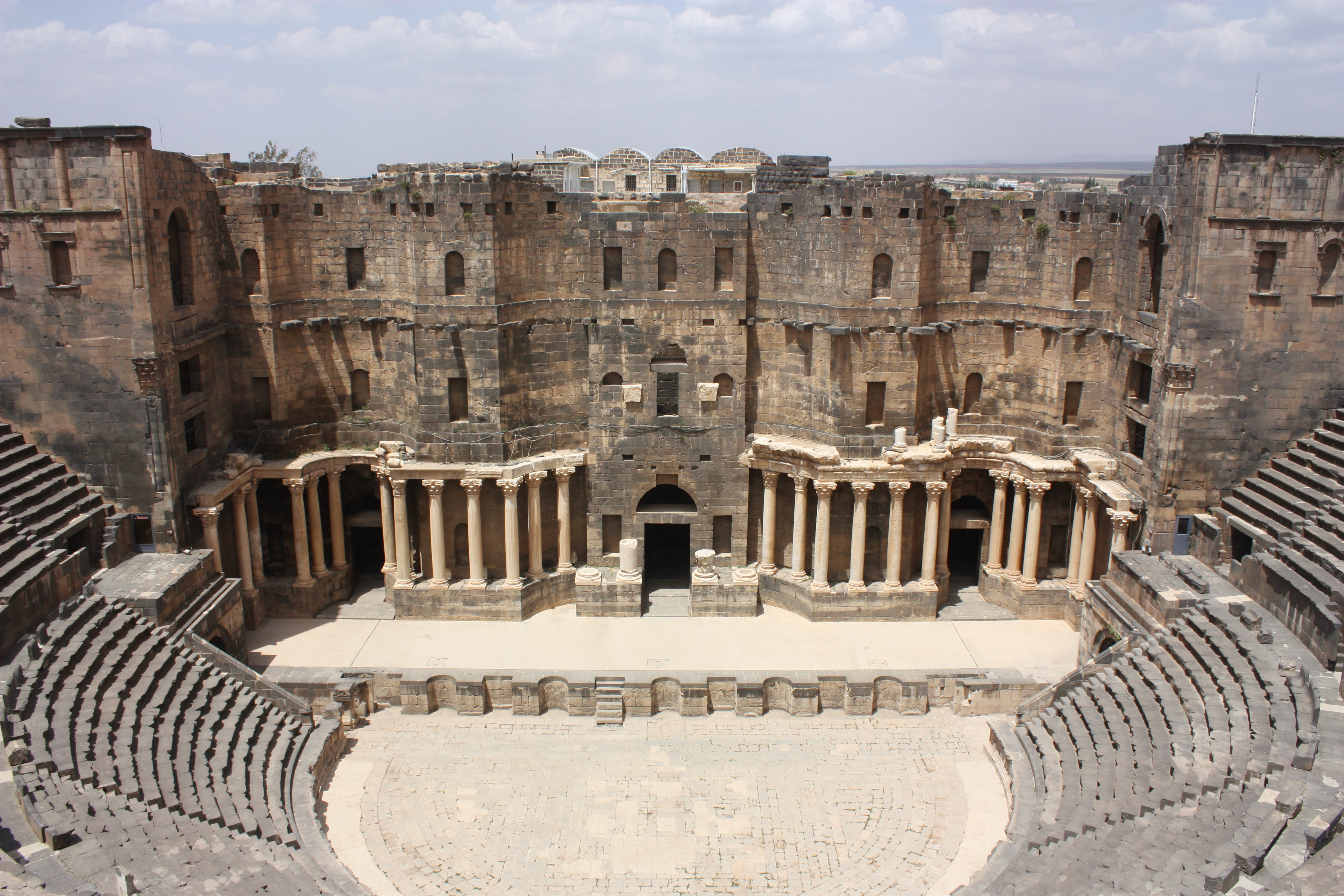 Bosra, theatre